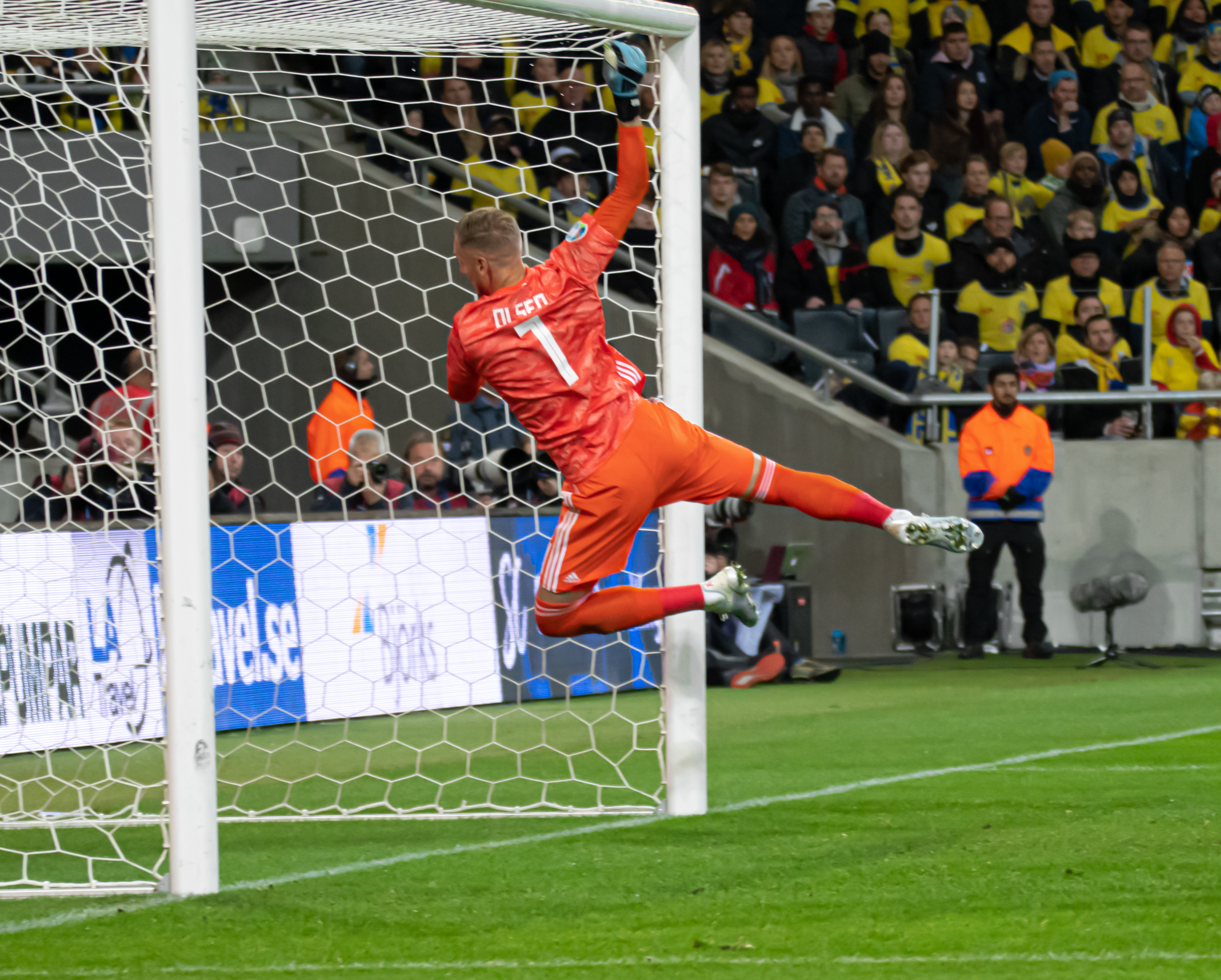 UEFA_EURO_qualifiers_Sweden_vs_Spain_20191015